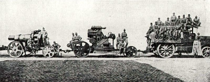 Photograph showing Austro-Hungarian 30.5 cm siege mortar/howitzer being towed by a motor tractor, together with its complete crew.